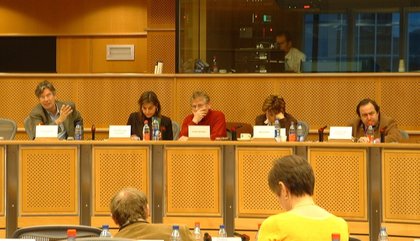 Parliamentary party meeting in European Parliament, Brussels. Left to right: Pierre Jonckheer, Vula Tsetsi, Daniel Cohn-Bendit, Monica Frassoni, Bernat Joan i Marí.